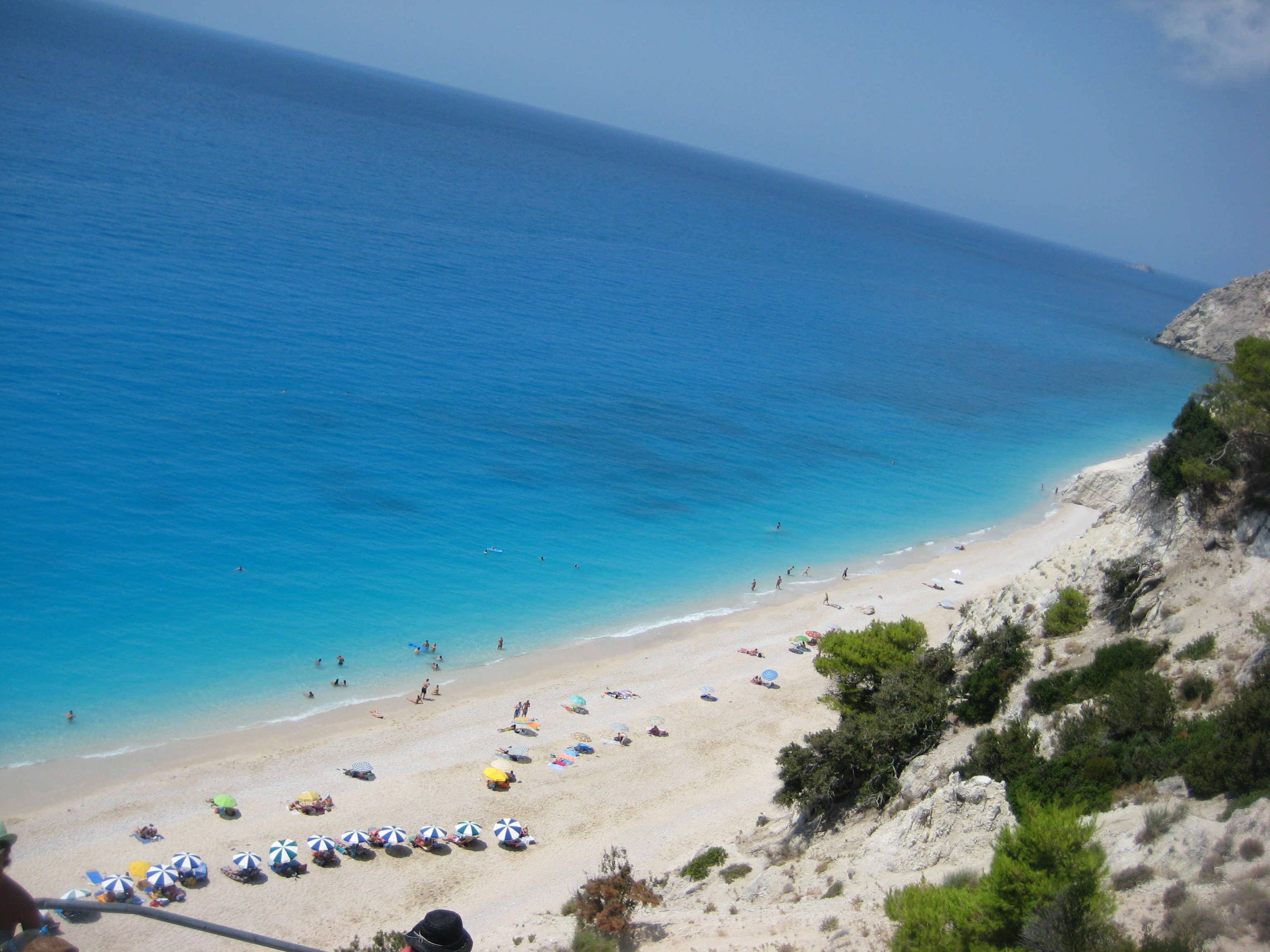 View from the stairs. Egremni, Lefkada, 2007